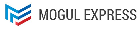 Mogul Express LLC